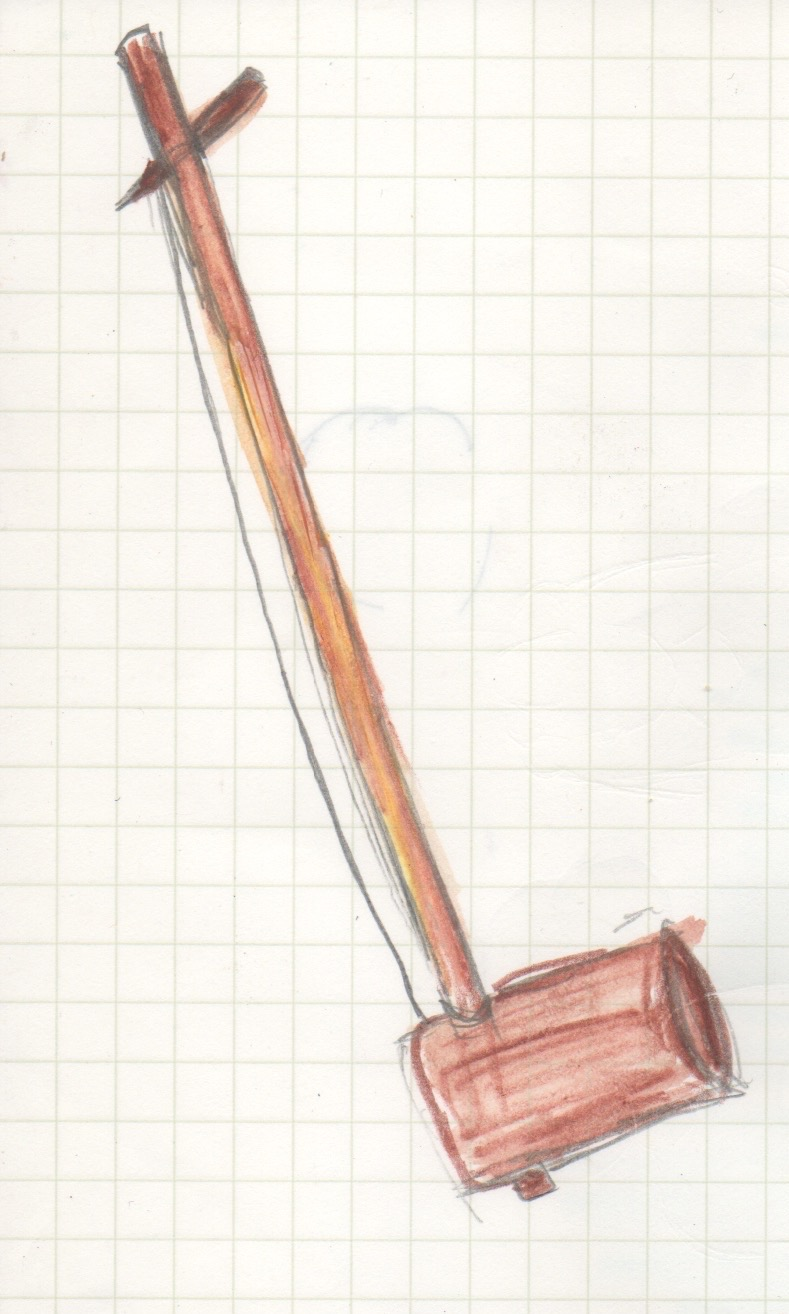 K'đoh